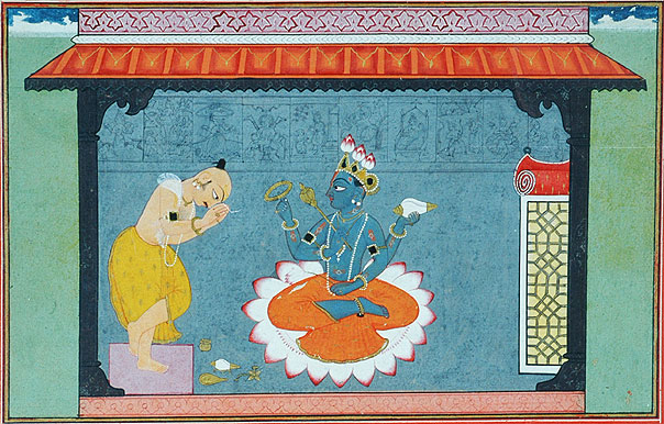 The poet Jayadeva bows to Vishnu, Gouache on paper Pahari, The very picture of devotion, bare-bodied, head bowed, legs crossed and hands folded, Jayadeva stands at left, with the implements of worship placed before the lotus-seat of Vishnu who sits there, blessing the poet.